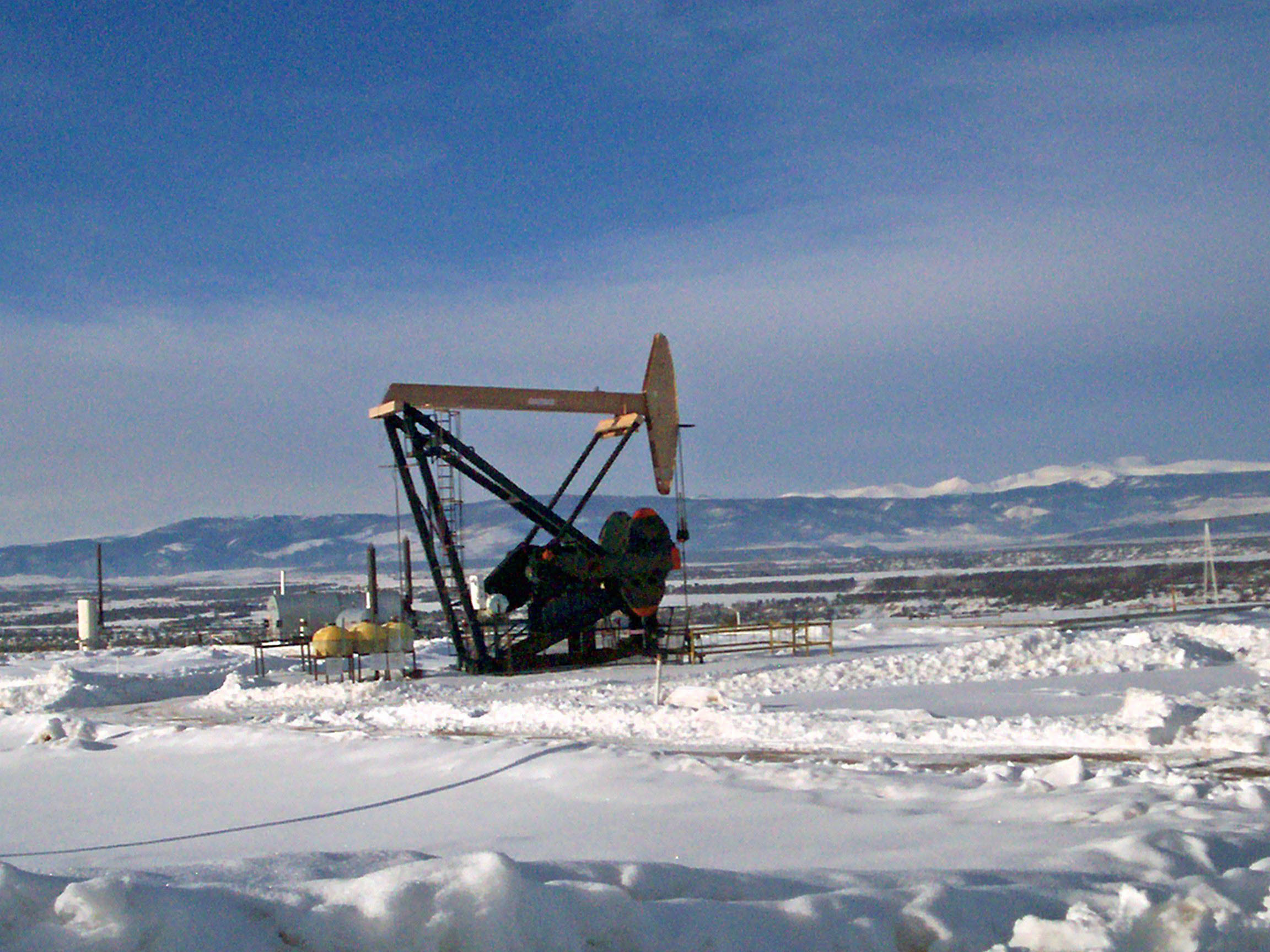 Oil well in the Uinta Basin, Utah. Petroleum production is a large part of the economy in eastern Utah.